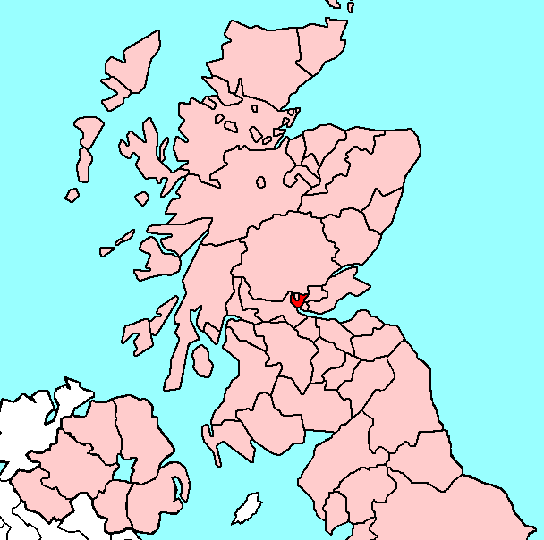 Clackmannanshire